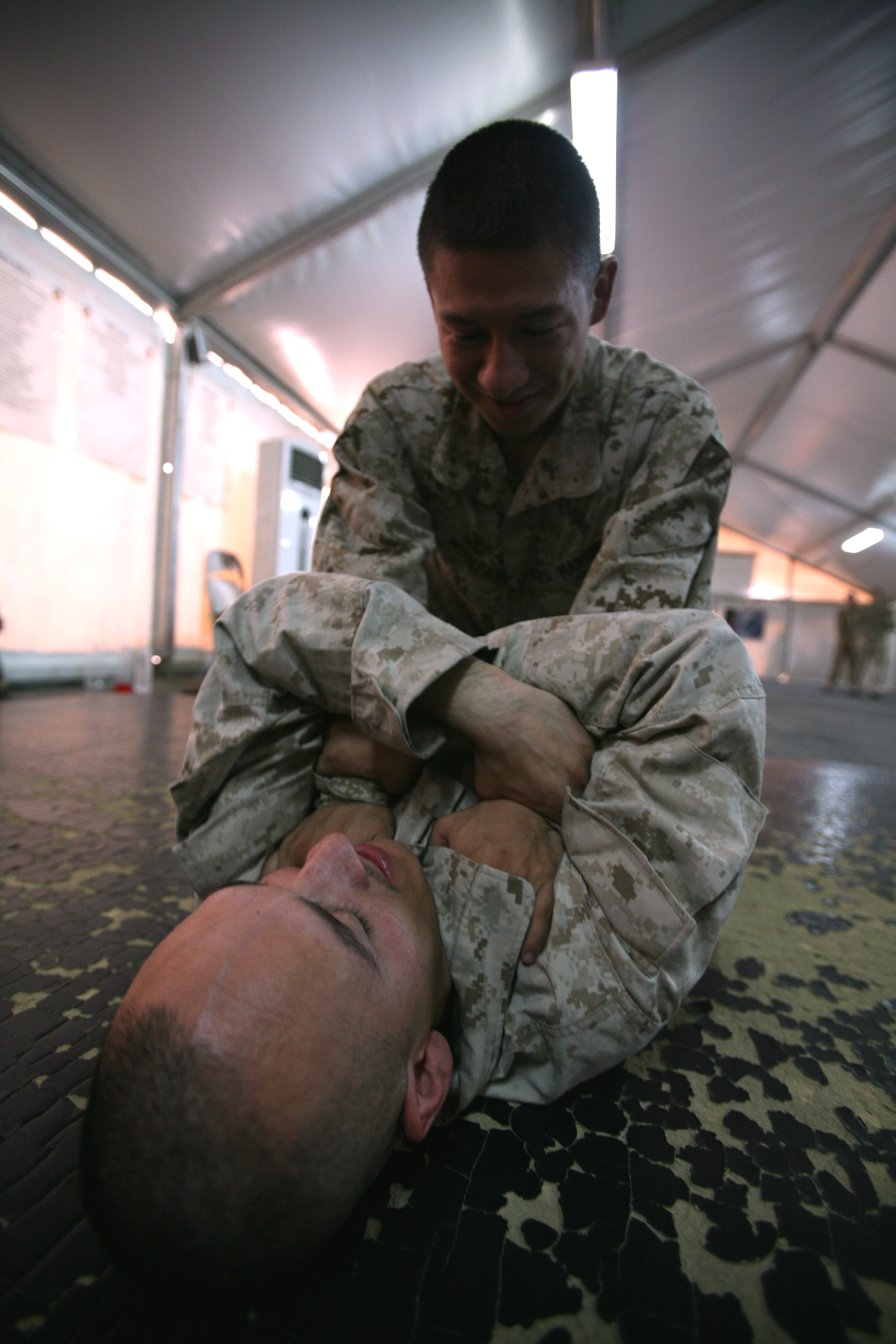 AL TAQADDUM, Iraq (Aug. 22, 2007) � Sergeant Carlos Q. Barazza begins to execute an armbar from the guard technique on Cpl. Esteban E. Montano at the mainside aerobics gym here Aug. 22. Marines with 1st Battalion, 11th Marine Regiment are attending Marine Corps Martial Arts Program courses to increase their repertoire of skills. Barazza is a platoon guide and Oakland, Calif., native with Battery C, 1st Bn., 11th Marines. Montano is a mortarman from Los Angeles with Battery C, 1st Bn., 11th Marines.